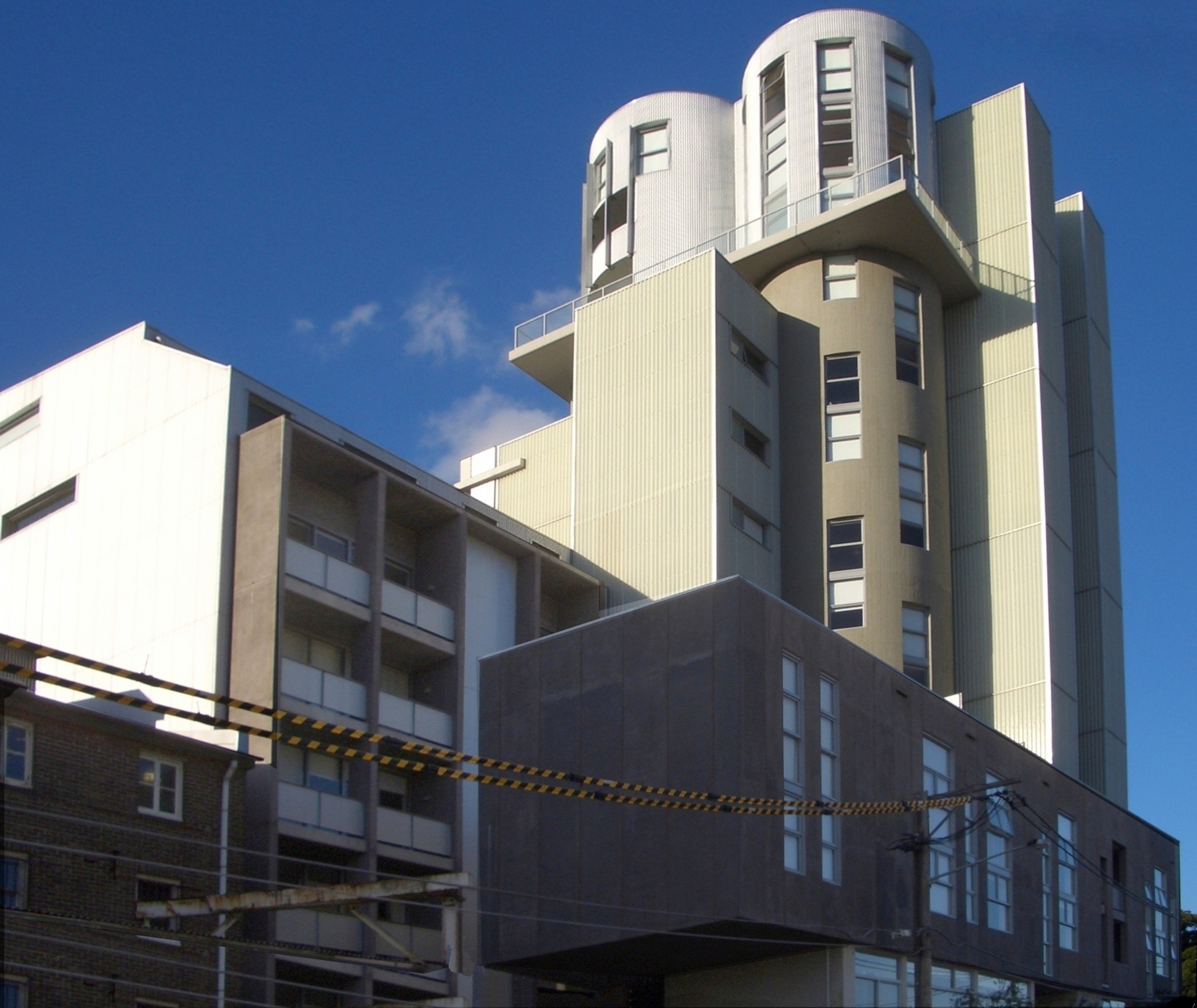 Crago_Flour_Mill, Newtown, Sydney, Australia